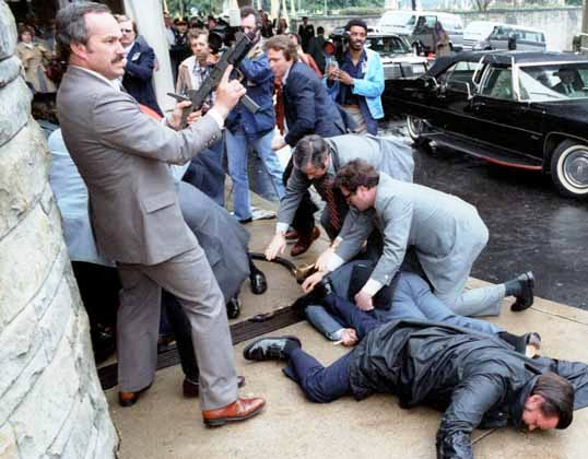 Just after the assassination attempt on US President Ronald Reagan, 30 March 1981, outside the Washington Hilton Hotel. James Brady and police officer Thomas Delahanty lie wounded on the ground.